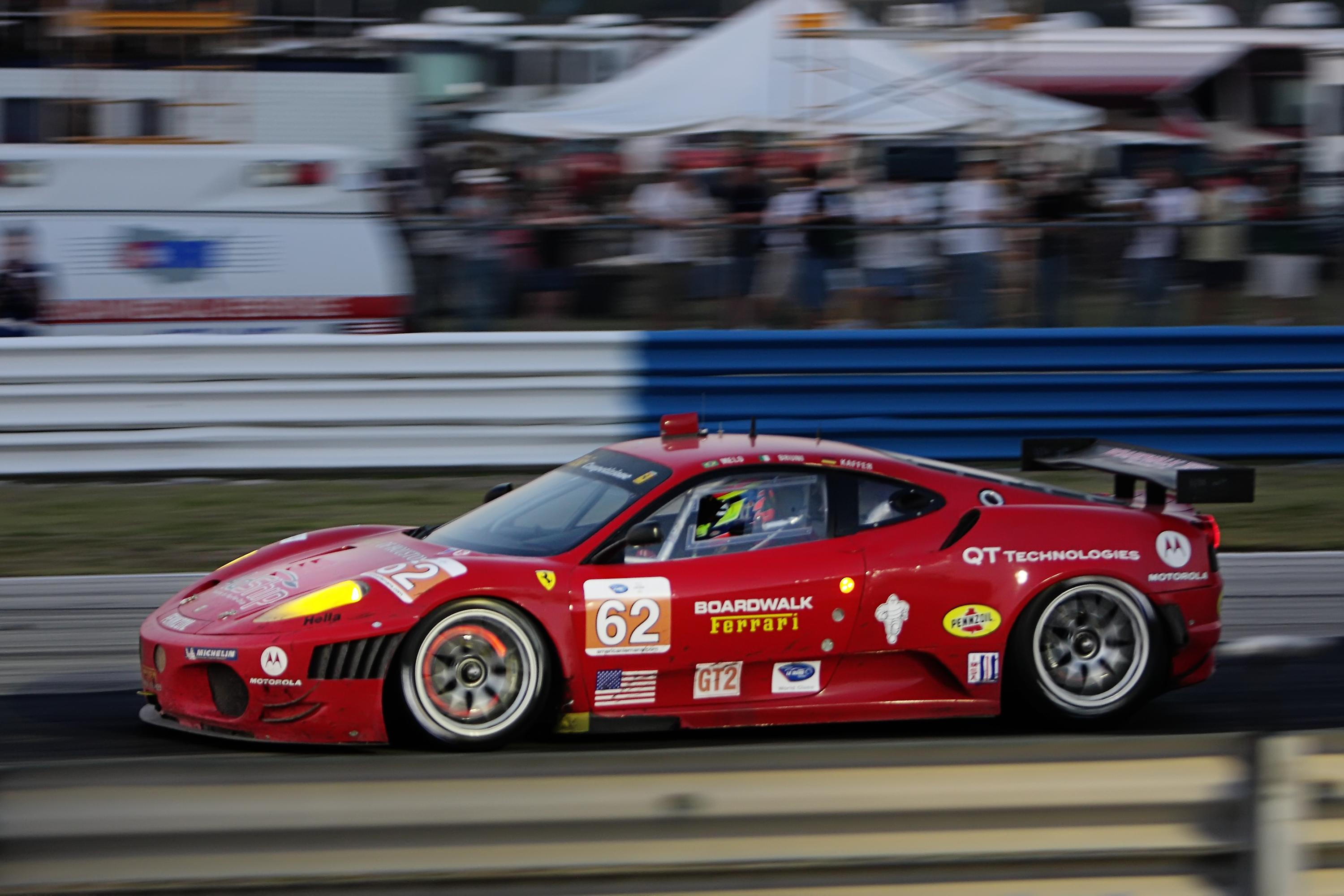 GT2 class winner. Risi Competizione #62 Ferrari F430 GTE.